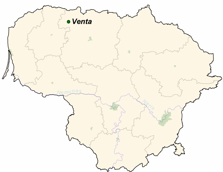 Venta on the map of Lithuania